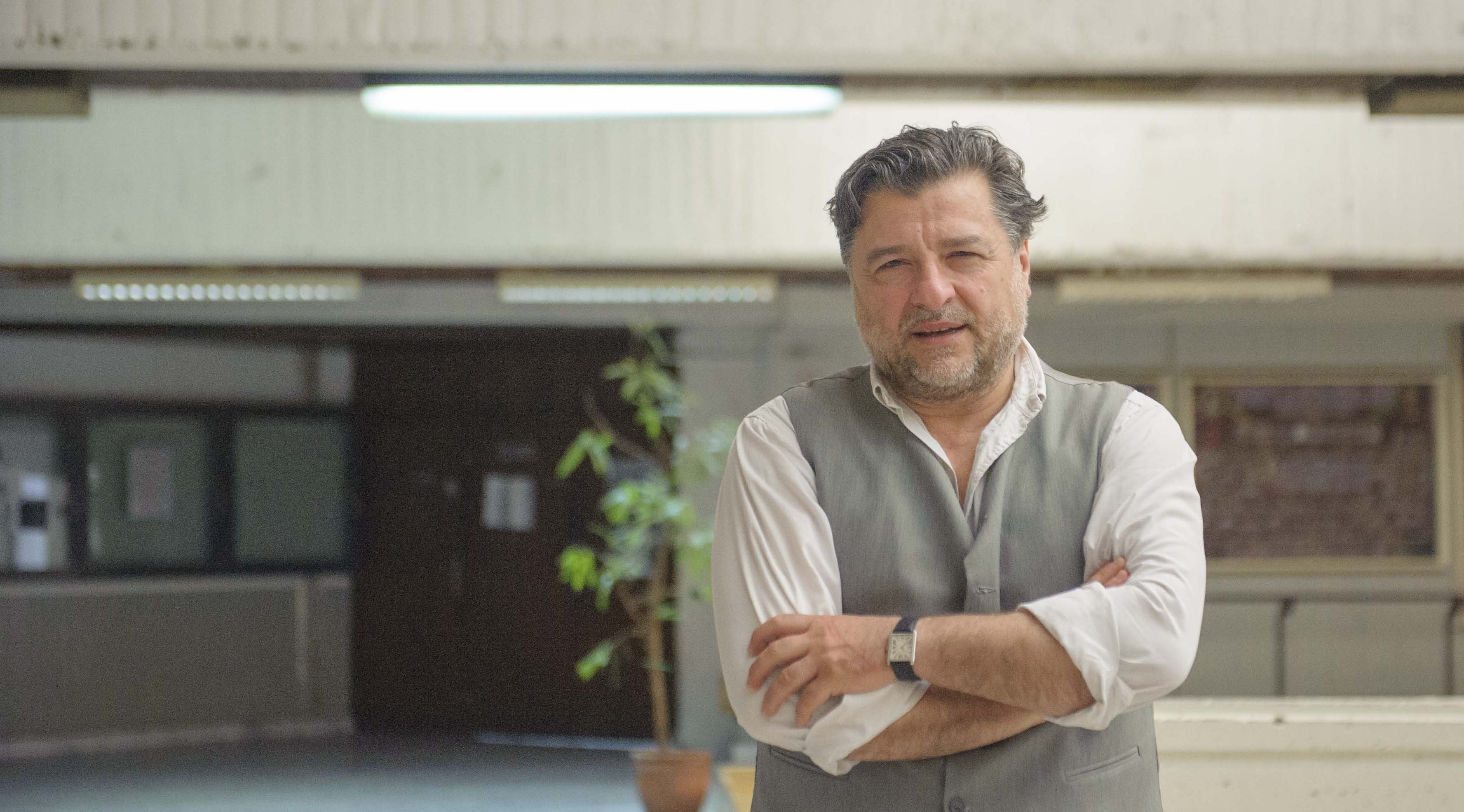 frckoski